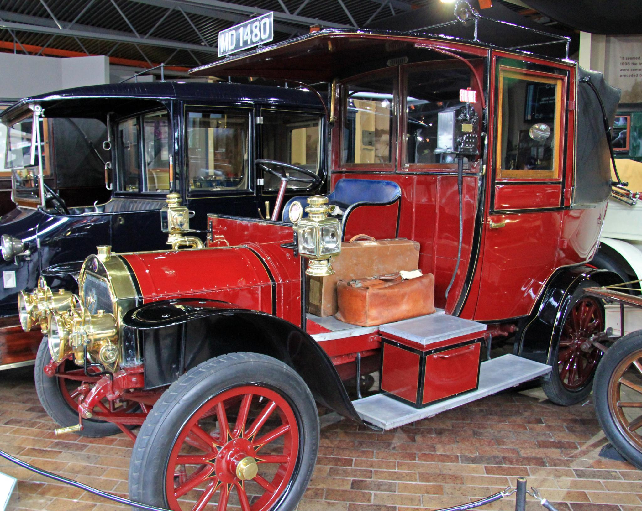 Unic 1908 Taxi Cab French From 1906 onwards, the Unic, first in twin cylinder and later in four cylinder form, appeared in increasing numbers on the taxi ranks of London. The last of a long line of this make were still in evidence as late as 1952. It has a turning circle of only 31ft. In 1950 it was discovered in buildings alongside a Dorset watercress farm and restored by Jack Sparshatt. Cylinders: 4 Capacity: 1944cc Maximum Speed: 30mph Price New (chassis): £350 Model Current: 1907-1911 Manufacturer: Societe des Anciens Etablissements Georges Richard, Puteaux Owner: Montagu Collection Housing a collection of over 250 automobiles and motorcycles telling the story of motoring on the roads of Britain from the dawn of motoring to the present day, the award winning (Winner - The International Historic Motoring Awards of the Year 2012) National Motor Museum appeals to all age groups. From World Land Speed Record Breakers including Campbell’s famous Bluebird to film favourites such as the magical flying car, Chitty Chitty Bang Bang and rare oddities like the giant orange on wheels. Don’t miss exciting extra features such as the Motorsport Gallery, Wheels and Jack Tucker's Garage - A permanent, multi award-winning 1930's garage has been created within the Museum, complete down to the last nut and bolt and rusty drainpipe. Whilst the building is a complete fabrication, everything in it - all the fixtures, fittings, tools and ephemera - are genuine artefacts collected over a period of 25 years.